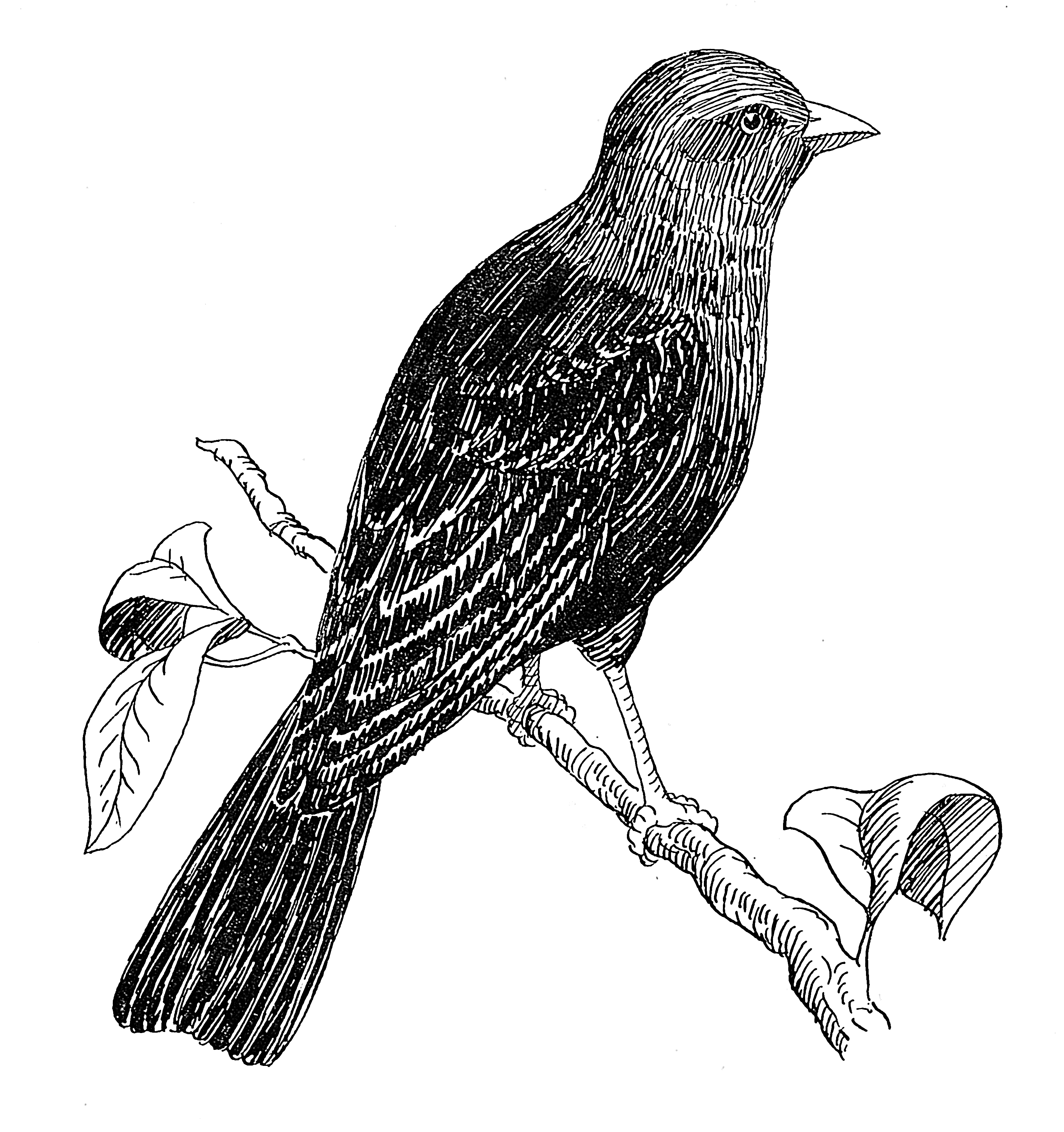 Line art drawing of a cowbird.